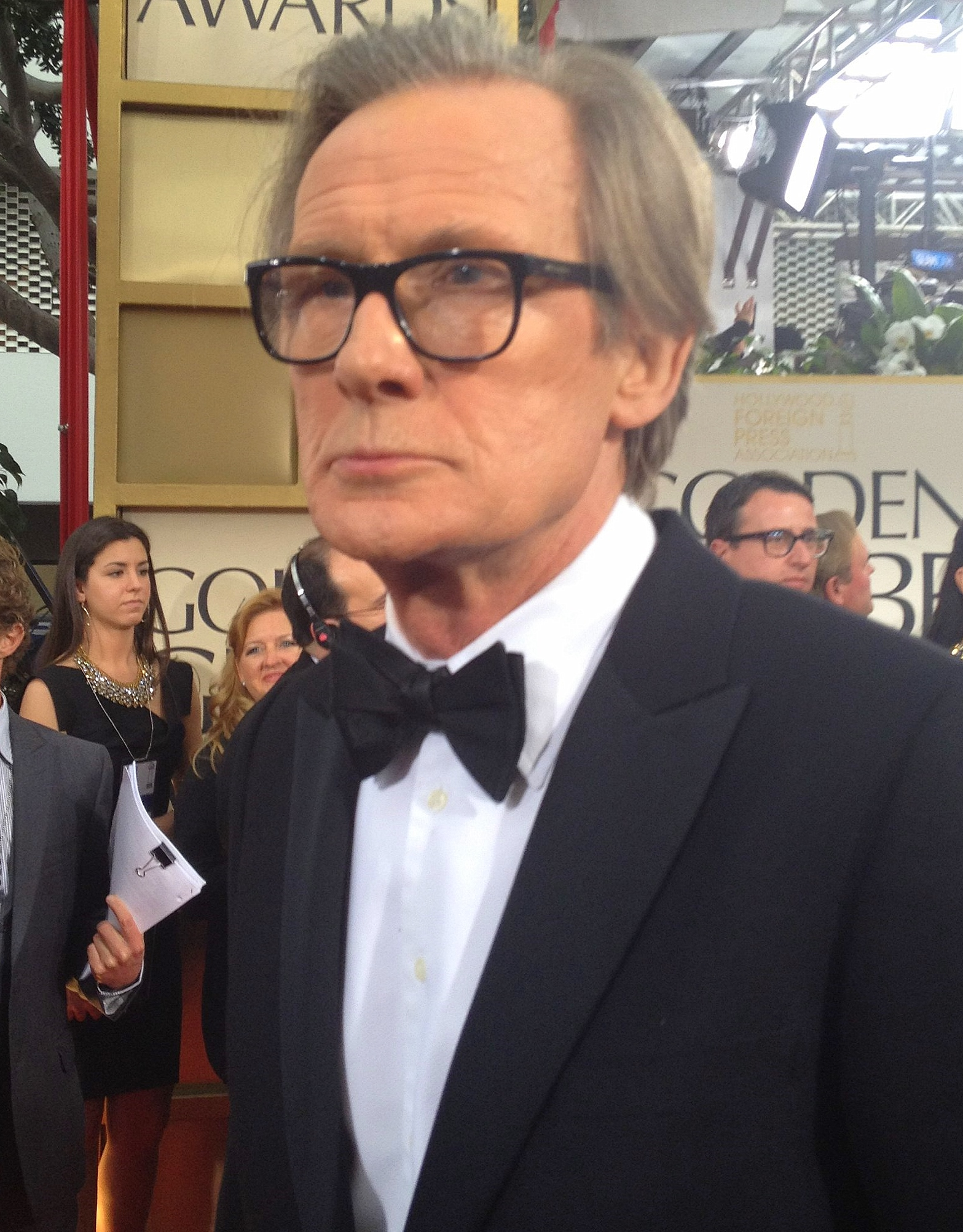 Bill Nighy at the 69th Annual Golden Globes Awards 2012.